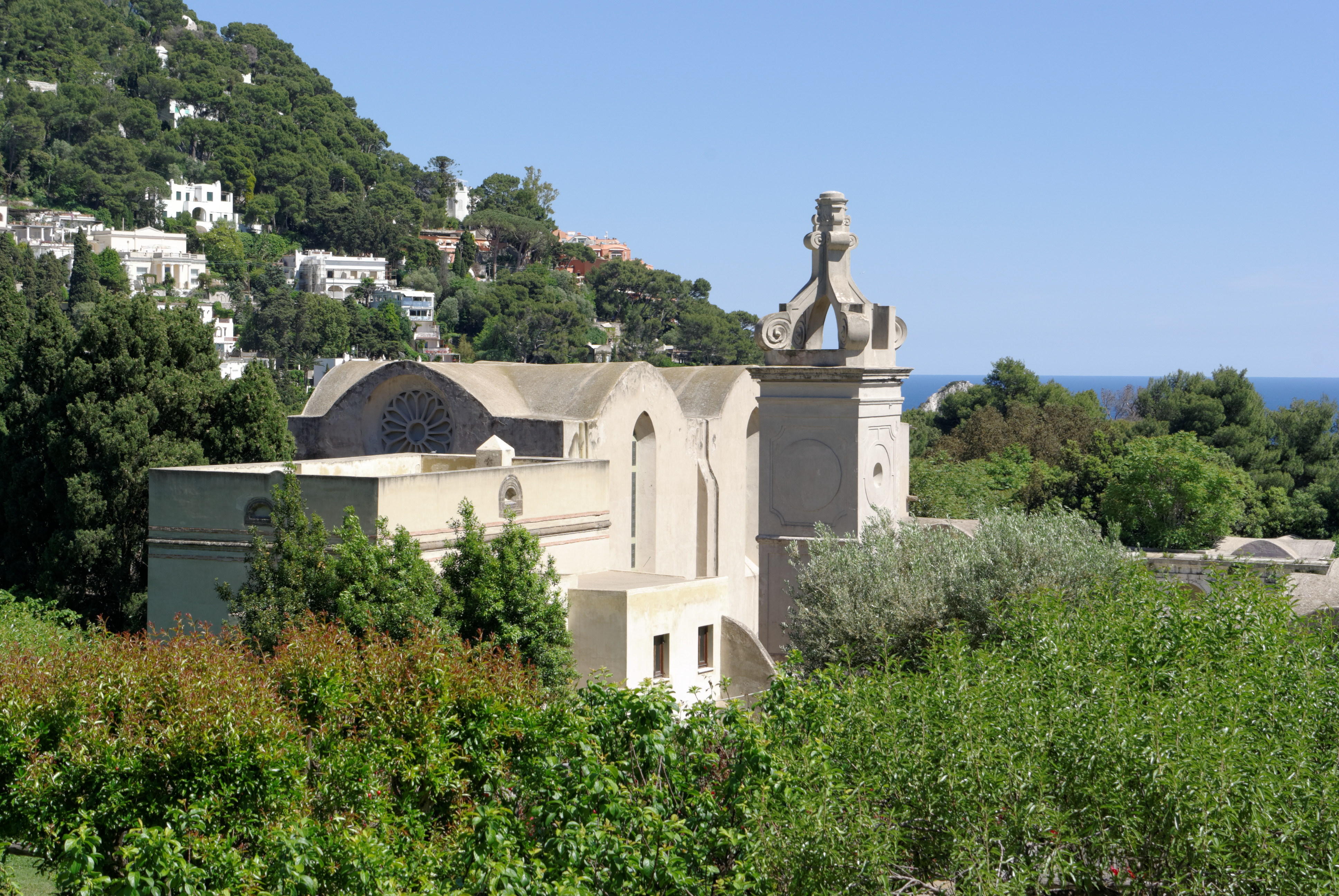 Capri, Certosa di San Giacomo